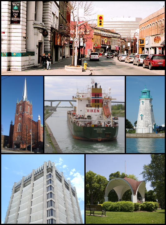 Montage of various representative photos of St. Catharines.